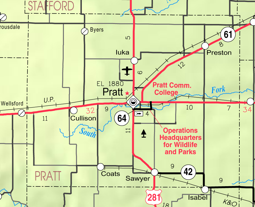 This map of Pratt County, Kansas, USA, is copied at a resolution of 300 pixels/inch from the original PDF file.